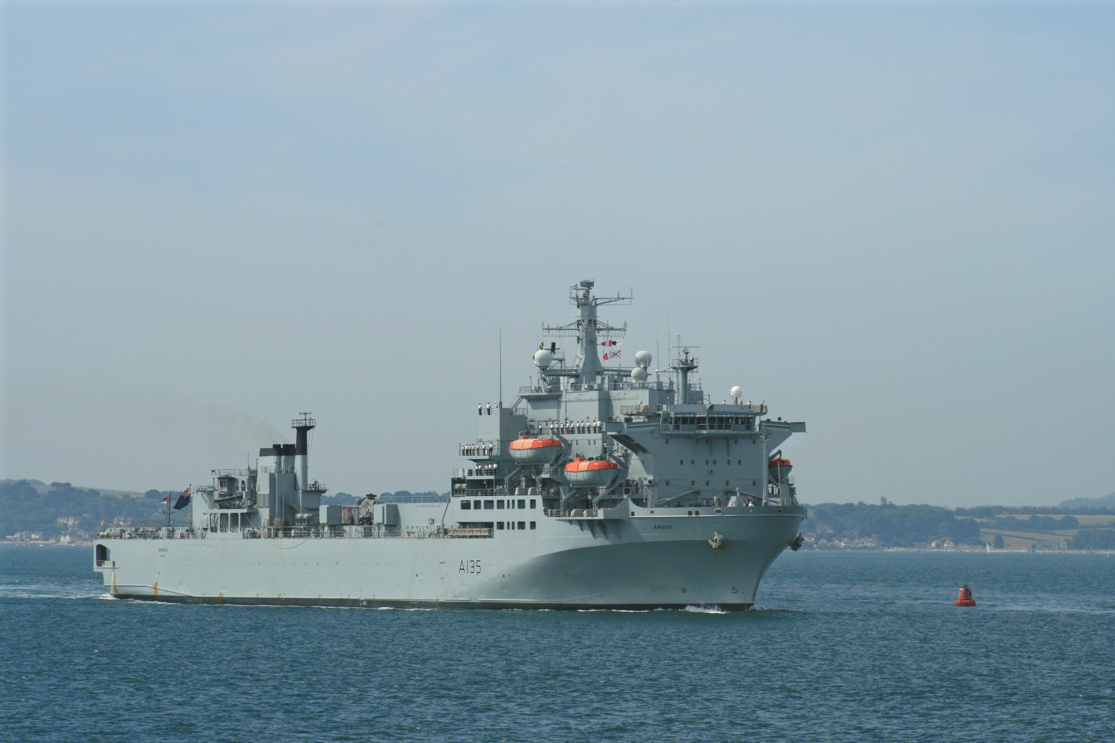 The Royal Fleet Auxiliary vessel RFA Argus inward bound to Portsmouth Naval Base on 09 July 2010, with the crew lining the decks and a Royal Marines band about to play the ship into harbour. Image uploaded by me User:George.Hutchinson from a photograph taken by and supplied by Brian Burnell. Wikipedia editors are reminded that the copyright remains with the photographer, and that the terms of the Creative Commons licence; that allow editors to reuse this image apply to Wikipedia editors also, as they do to other re-users of this image. Breaches of the licence terms are not only unlawful, but are also antisocial, in that breaches discourage photographers from making their images freely available to everyone without payment. Wikipedia re-users are also reminded of the license terms that derivatives of this image should not imply that the adaptation is endorsed or approved by the author or copyright holder. Neither should derivatives be presented as the creation of the author or copyright holder, while clearly stating that the adaptation is a derivative of the original. Attribution online should be in this format Brian Burnell. On the printed page, a simpler form is acceptable - example: "Image: Brian Burnell". Non-Wikipedia users are requested to advise Brian Burnell of its use other than on Wikipedia.